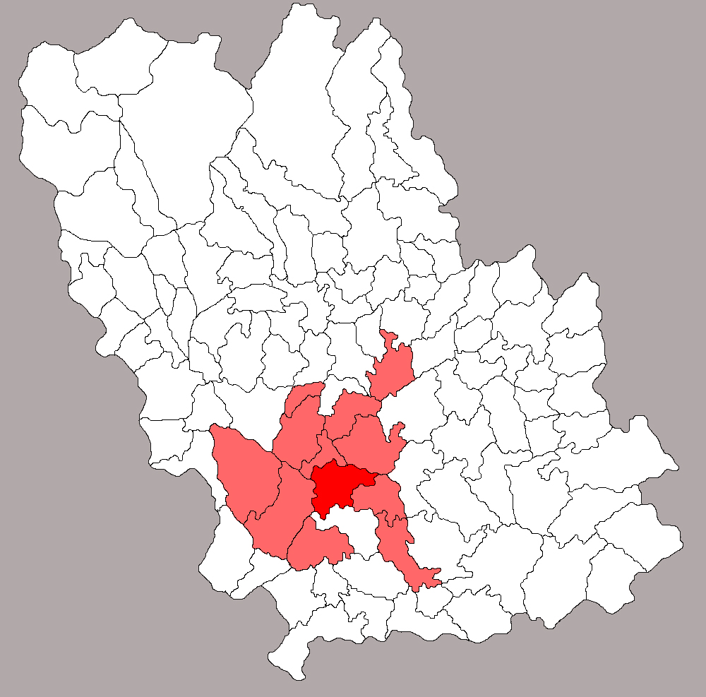 Ploiești Metropolitan Area in Prahova County.